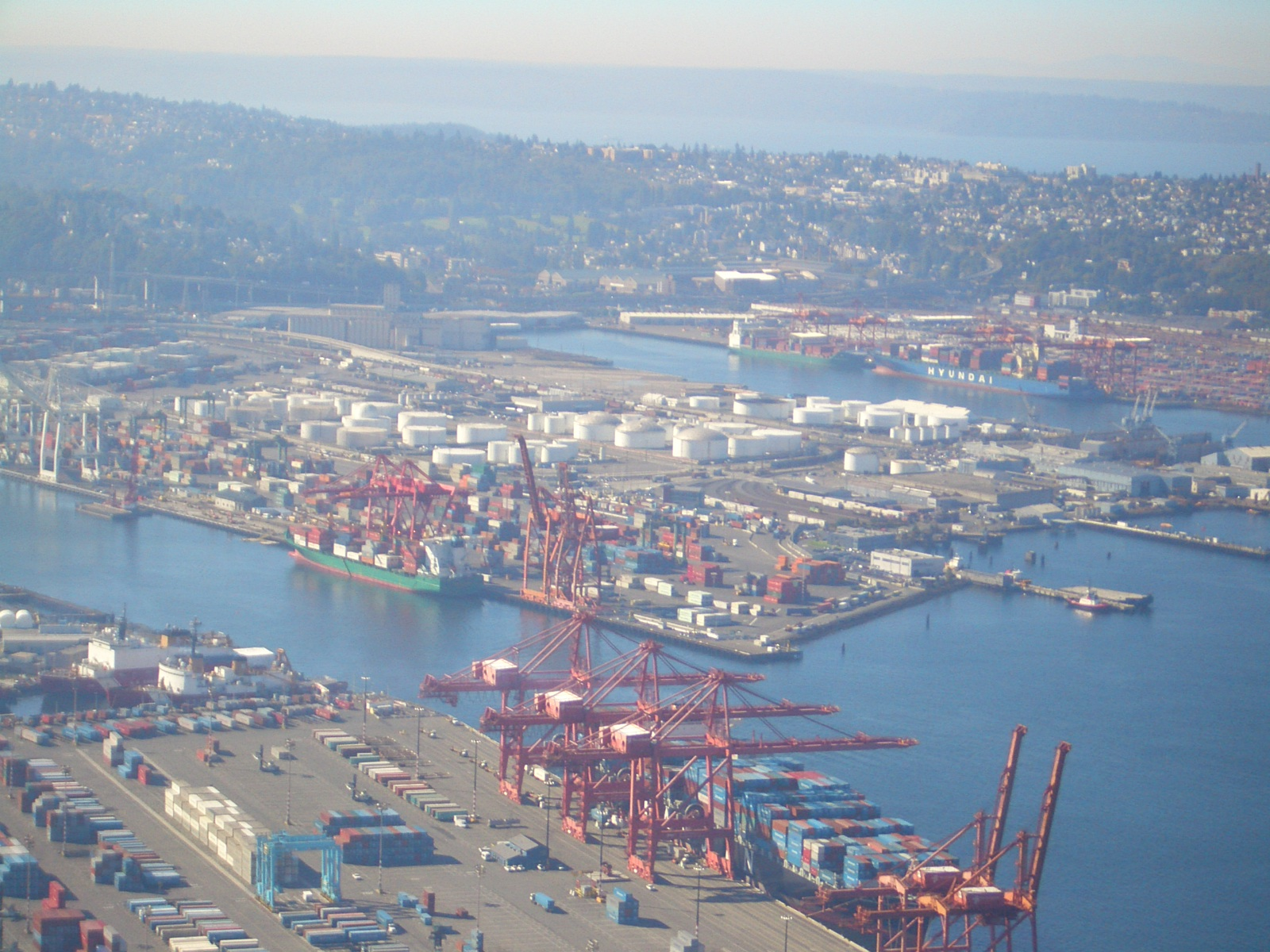 A view of Seattle Container Terminal, looking south-west from the observation deck of Columbia Center.